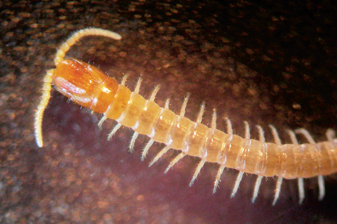 Tygarrup javanicus Attems, 1929 [Chilopoda: Geophilomorpha: Mecistocephalidae]. United Kingdom: Eden Project, Cornwall.